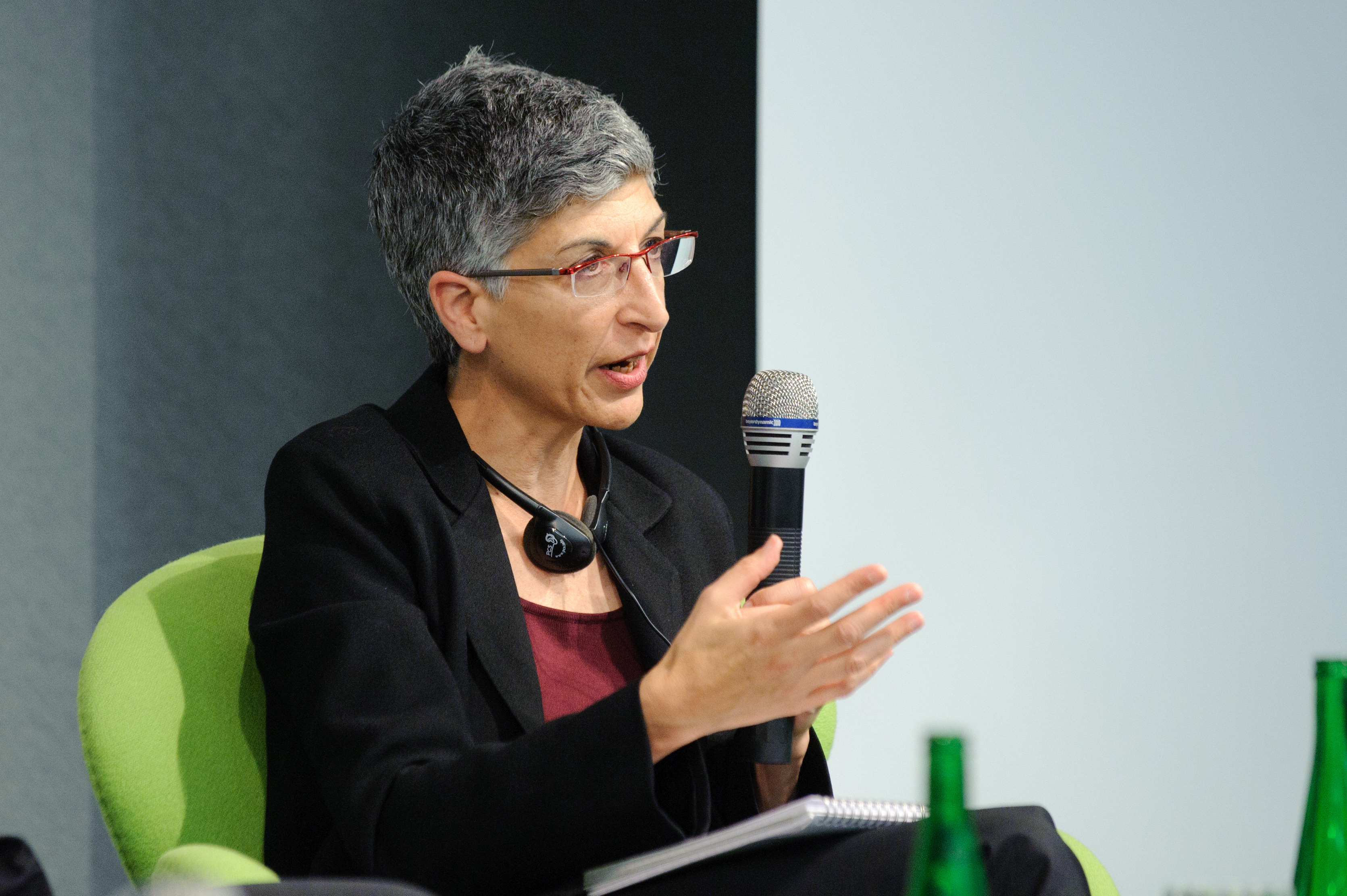 Tamar Jacoby (President, ImmigrationWorks USA, Washington, D.C.) Foto: CC-BY-SA Stephan Röhl /